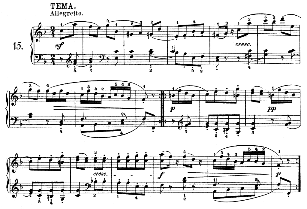 Theme from Mozart's Theme in F with five variations, K. 54/547b. (The fourth variation in the complete score at IMSLP is spurious.)